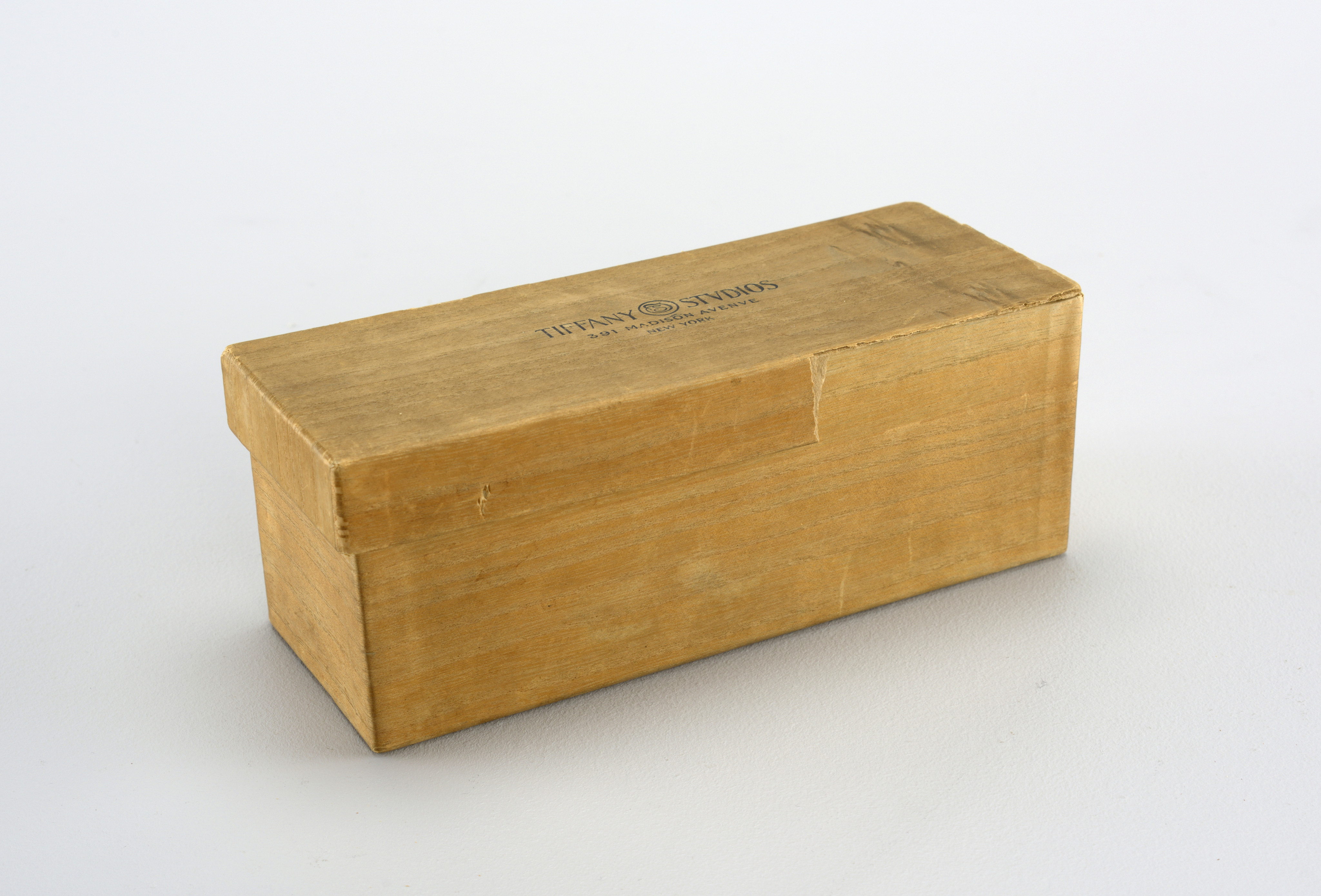 (A) Vertically ridged body, expanding at shoulder, on short, knobbed stem; flat foot. Greenish-gold iridescence, with blue and pink flashes. (B) Rectangular box covered with wood laminated to paper. Imprint: Tiffany Studios 391 Madison Avenue New York. (C) Lid to box.